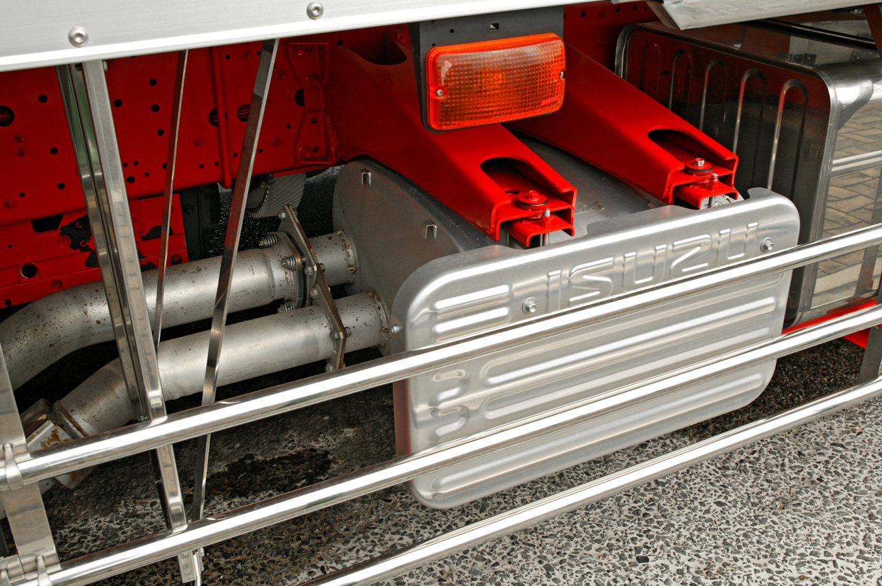 A muffler of large diesel-powered truck ( Isuzu Giga )